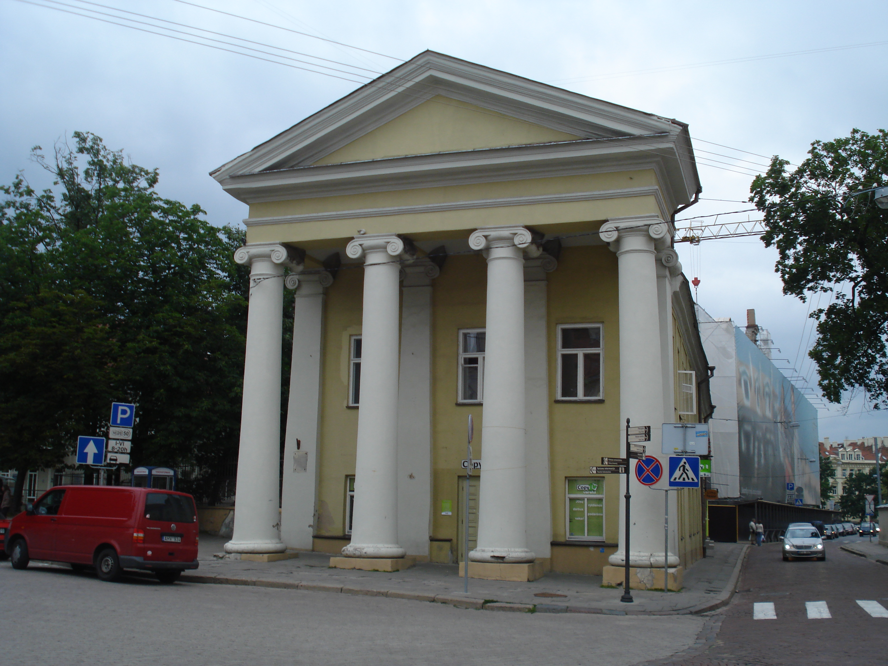 The house of de Reuss in Vilnius (Daukanto place)